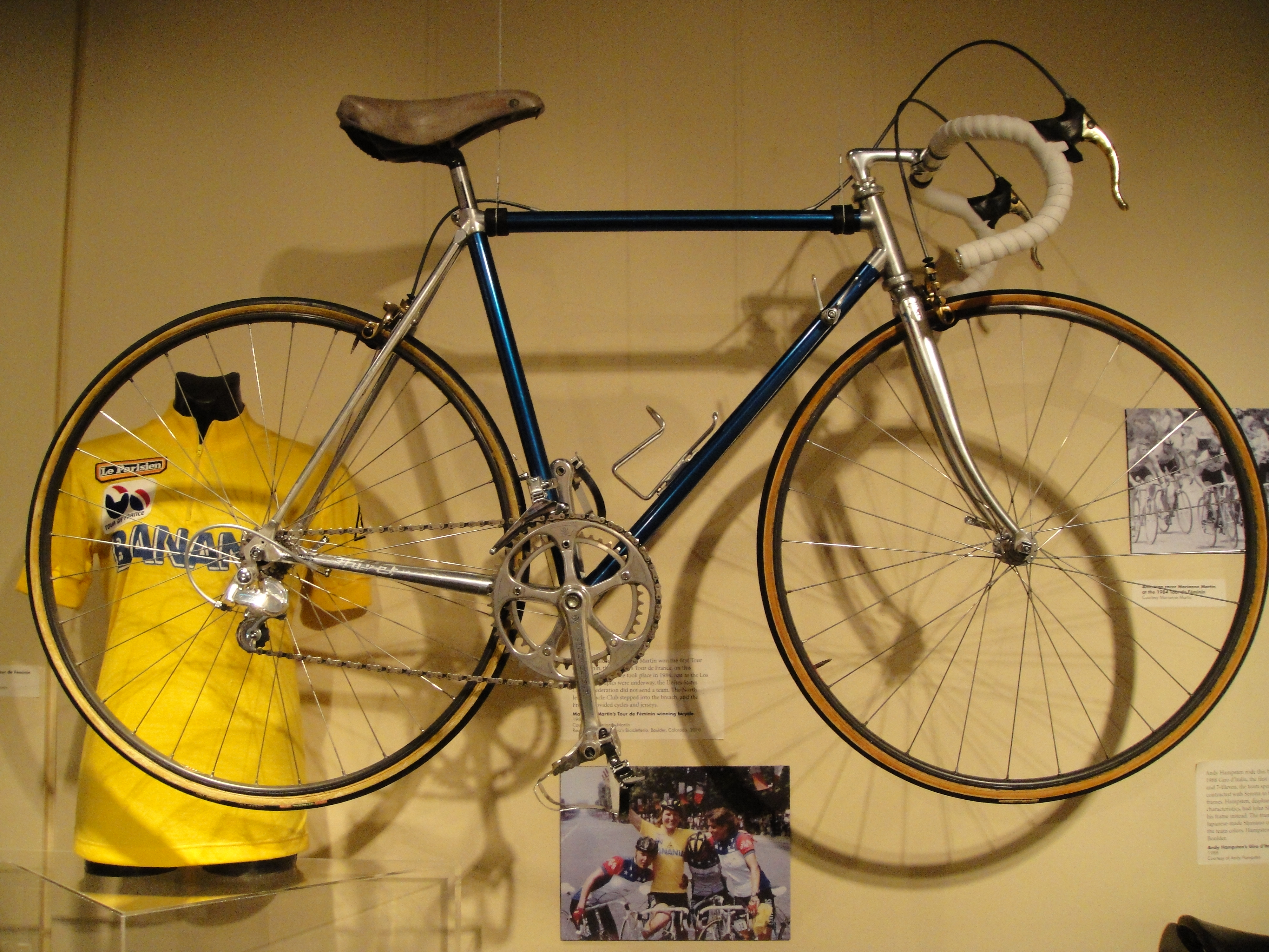 The bicycle ridden by winner Marianne Martin in the 1984 Tour de France Féminin. Pictured in the exhibition "Bicycles! 150 Years of Gears" held April 24 - July 3, 2010 at Longmont Museum & Cultural Center 400 Quail Road Longmont, CO, 80501